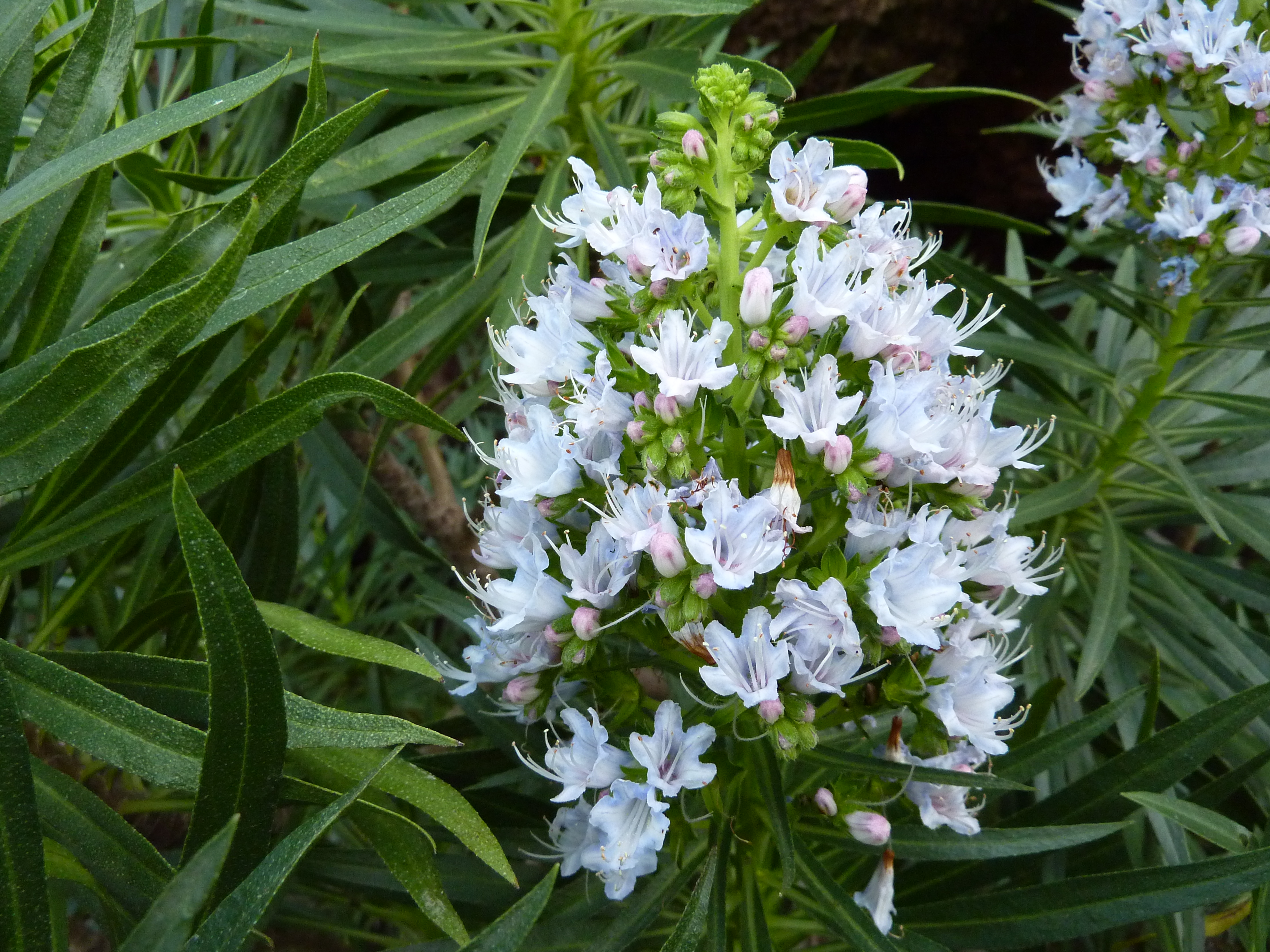 Echium decaisnei in the Jardín Botánico Canario Viera y Clavijo.